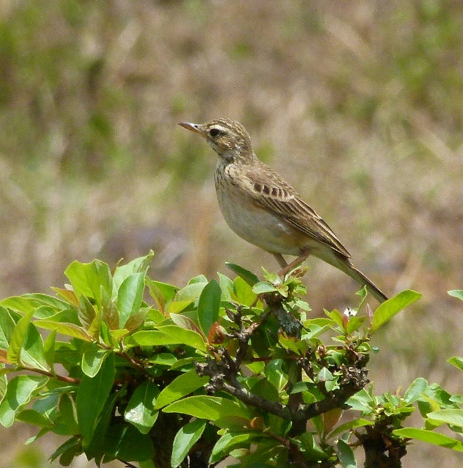 Anthus similis similis, Gopalswamy Betta, India